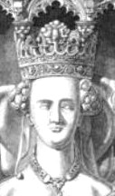 Tomb of Joan